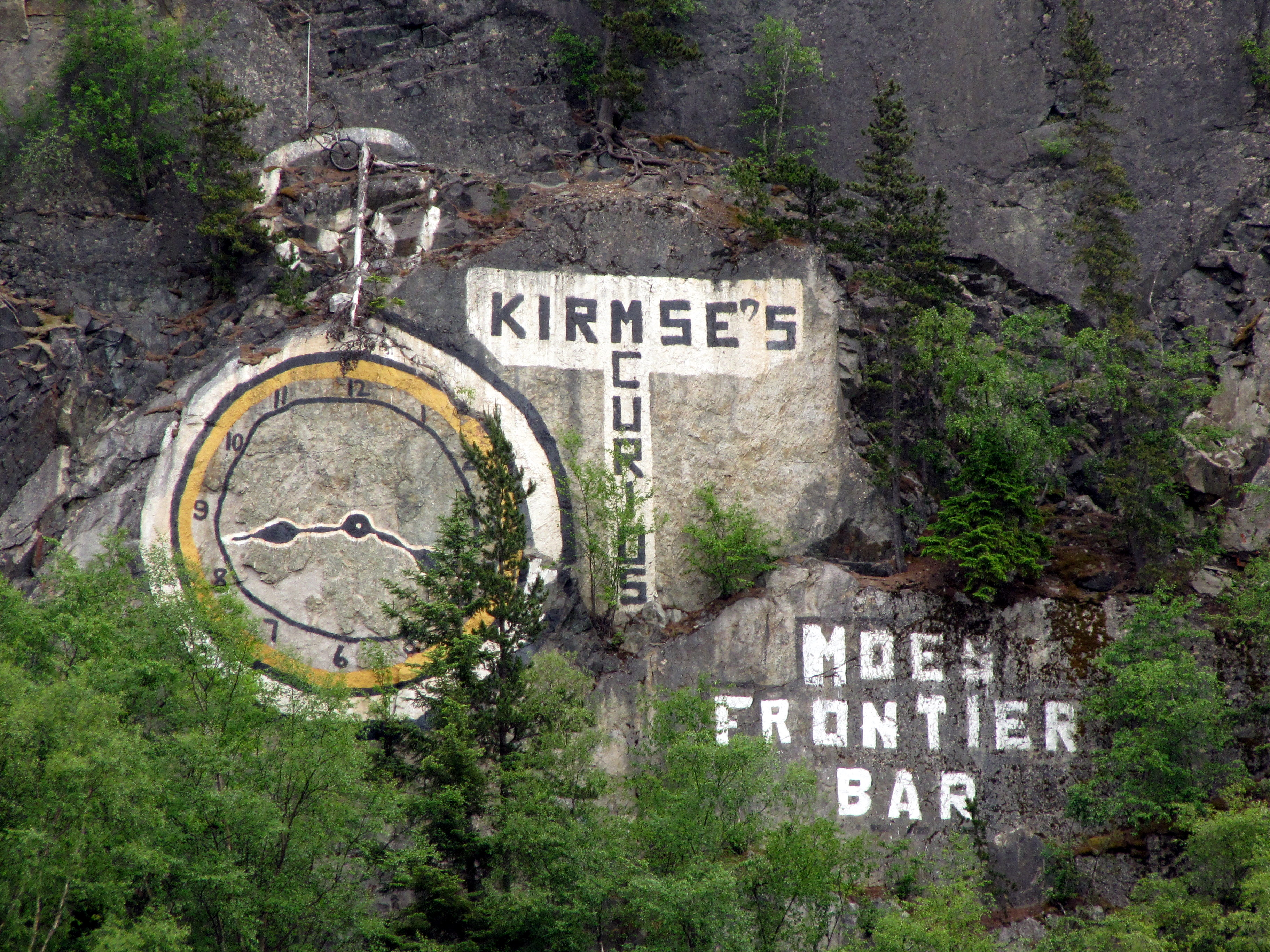 A Gold Rush-era advertisement on the mountain overlooking Skagway, Alaska.